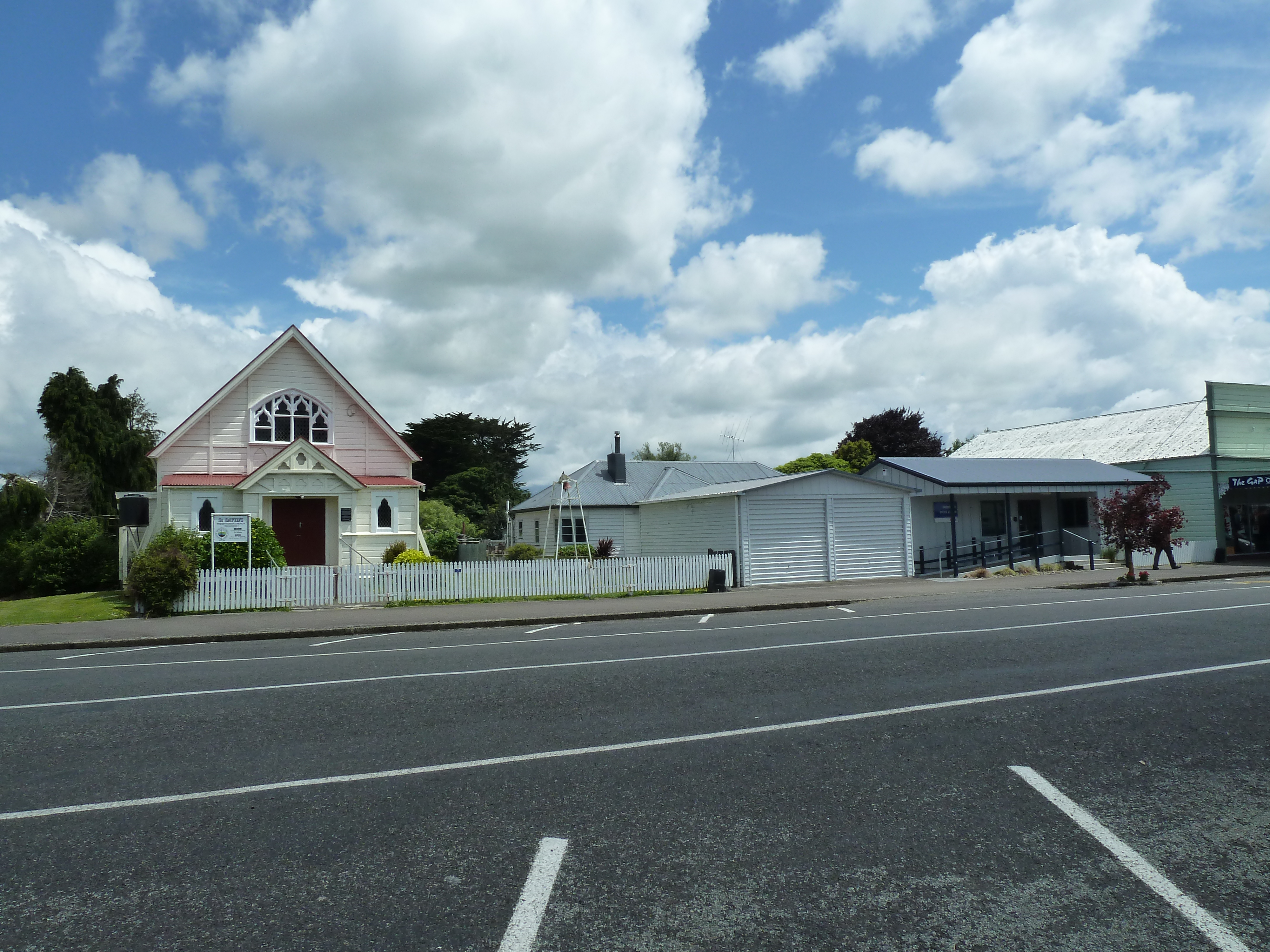 Upper Norsewood, Coronation Street. The Church.